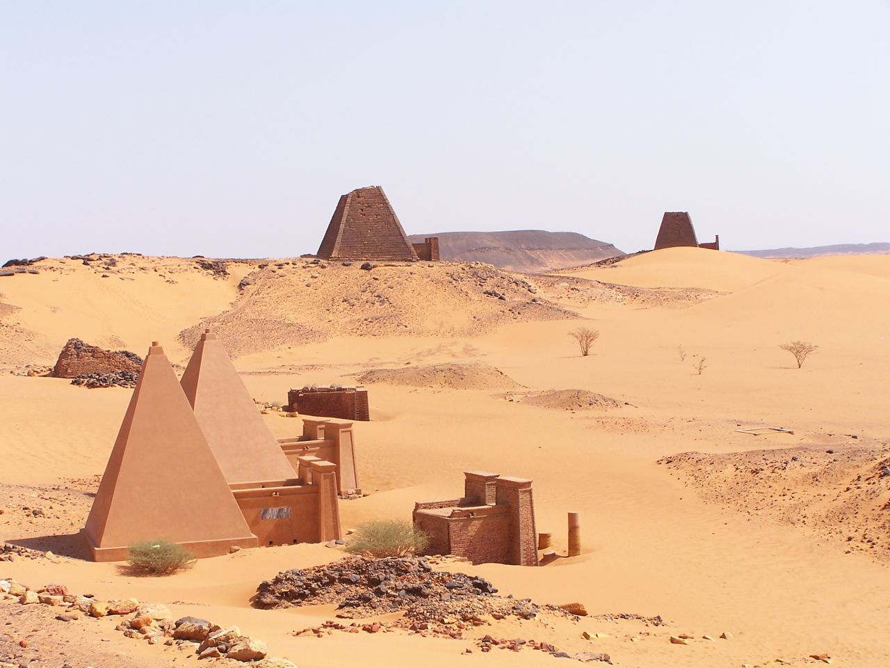 Pyramids of Meroe in Sudan. In the foreground from right front to left back: pyramide N25, N26 and N27. In the background in the middle pyramide N21 and right pyramide N22.